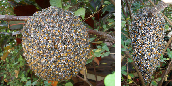 Sean Hoyland